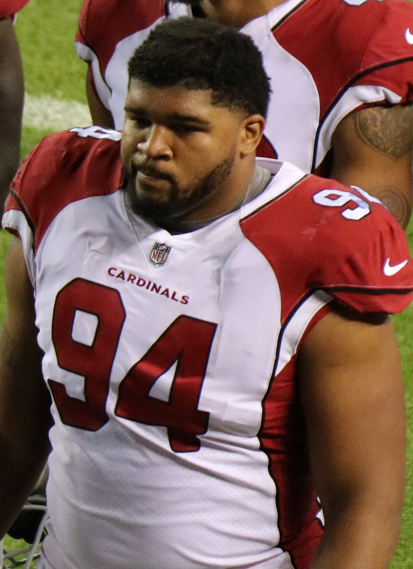 Xavier Williams, a player on the National Football League.